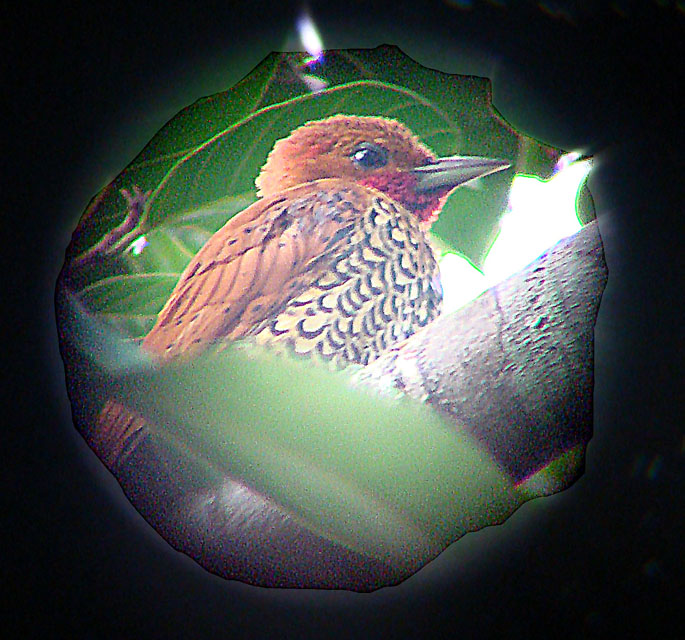 A Cinnamon Woodpecker or Carpintero Canelo, caught in a spotting scope on the Kuna Yali border, Panama. In context at